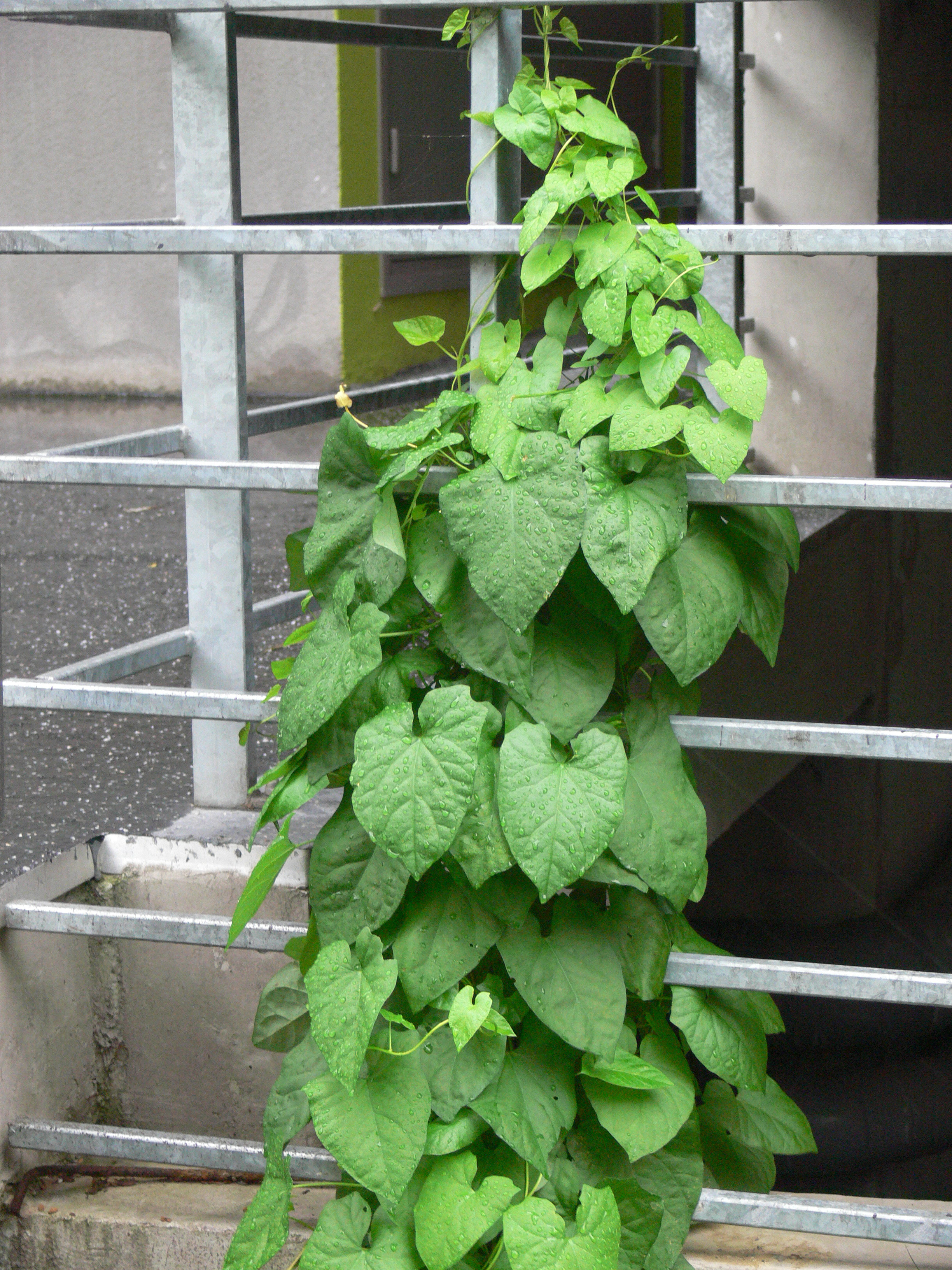 wild and native buckwheat who climbed the gate and covered parking underground between a "noue" (french word / Somebody can translate ?) surrounding a newly constructed building ("Neighborhood wood inhabited", Lille)